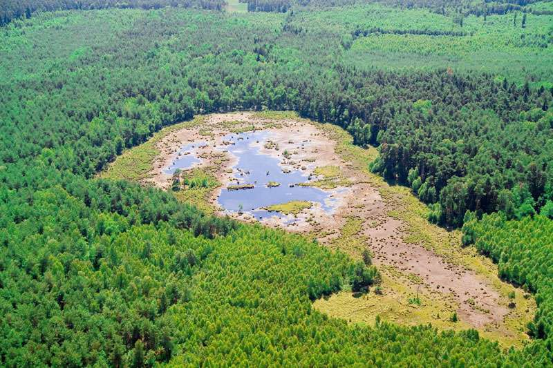 Bird'e eye view upon the Moczydło natural preserve in the Stoczek district, Poland.